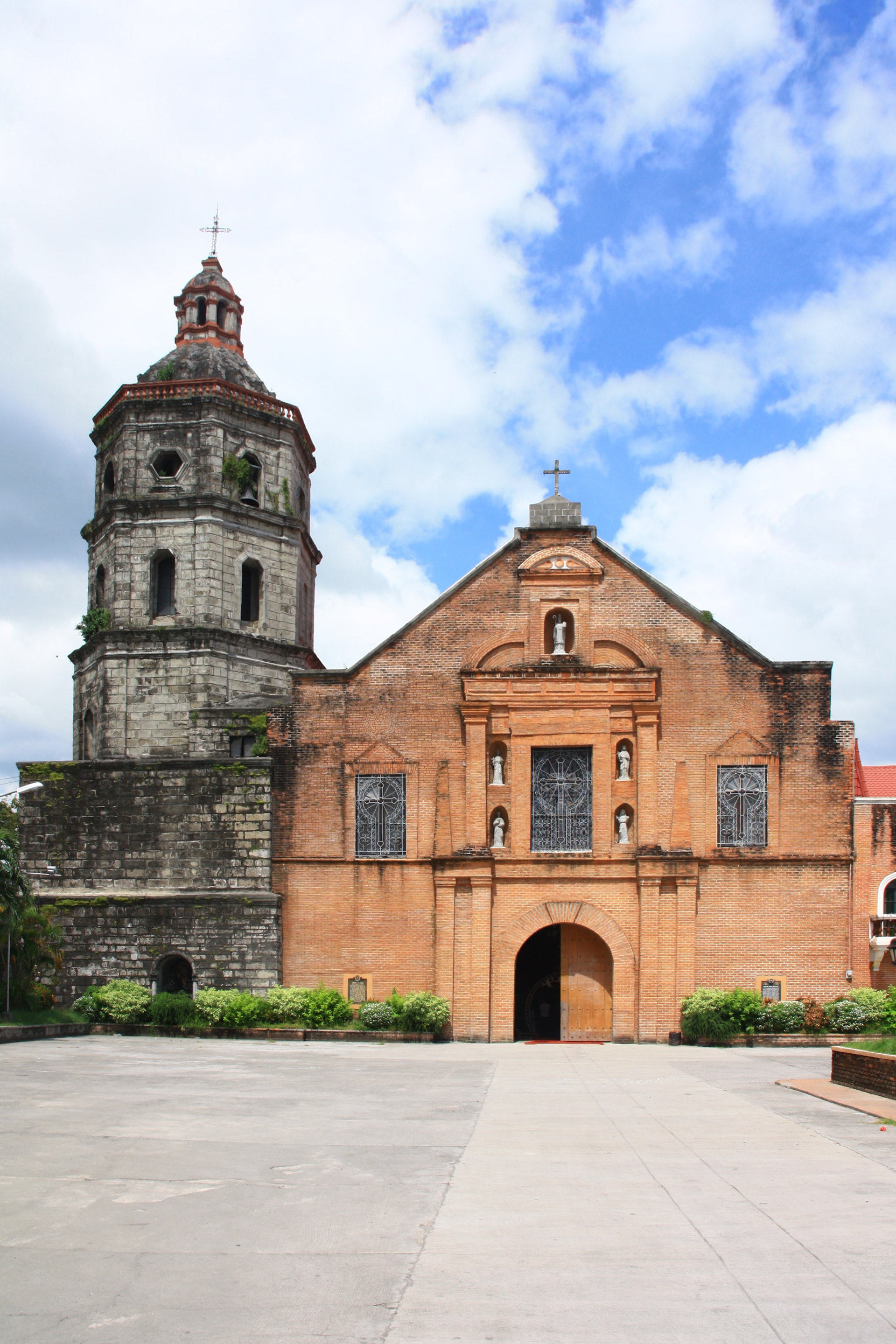 Facade of the Saint Augustine church in Lubao, Pampanga